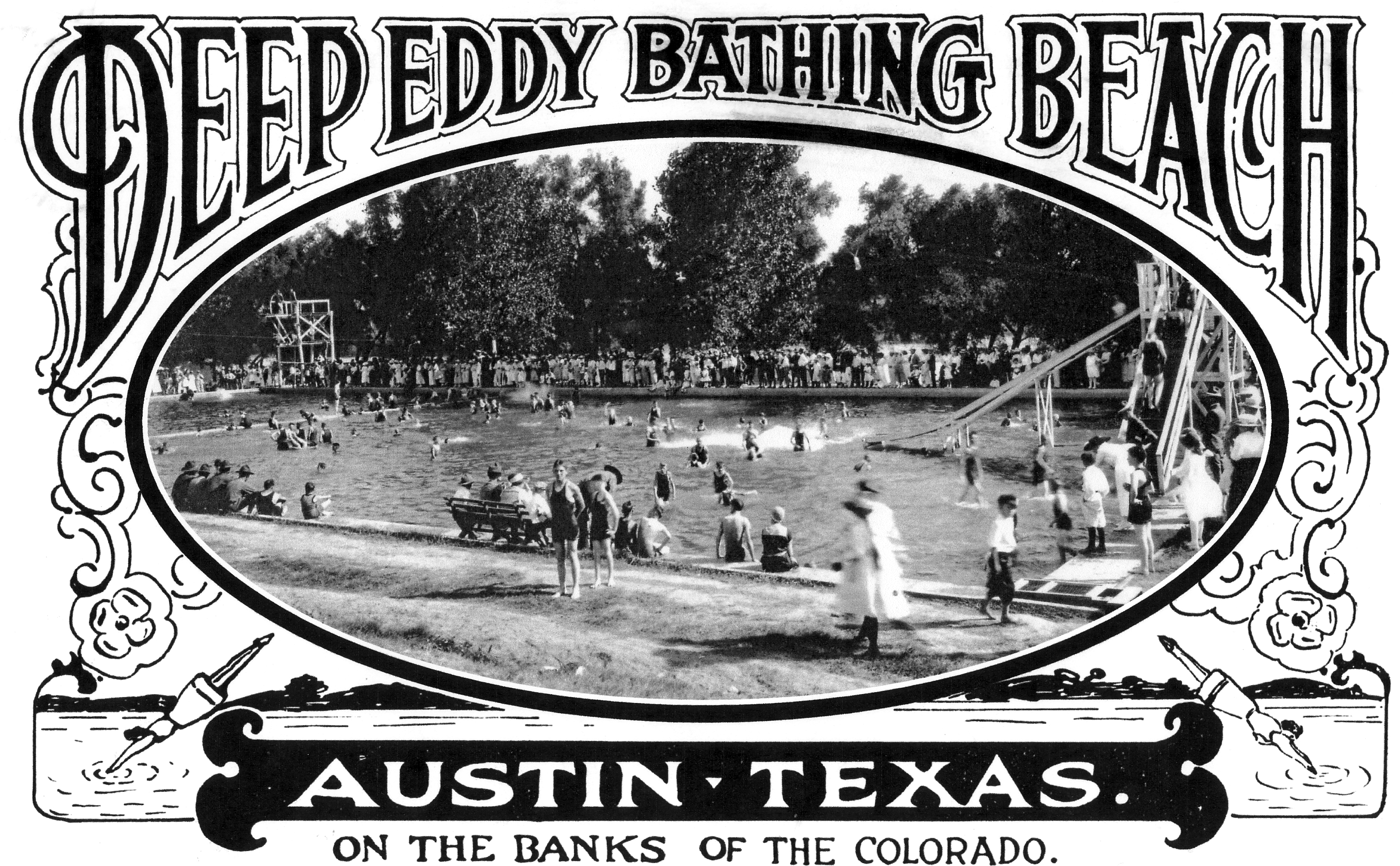 Logo of Deep Eddy Bathing Beach Co., circa 1916.